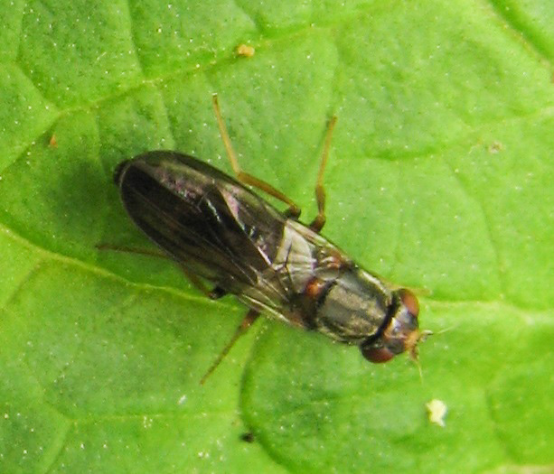 Rust fly, Chyliza. Pennypack Restoration Trust, Montgomery County, Pennsylvania, USA.